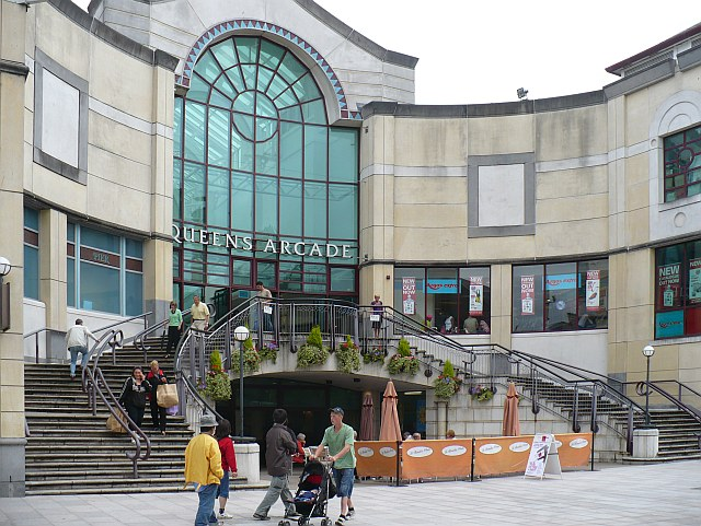 Entrance to Queens Arcade, Cardiff, Wales